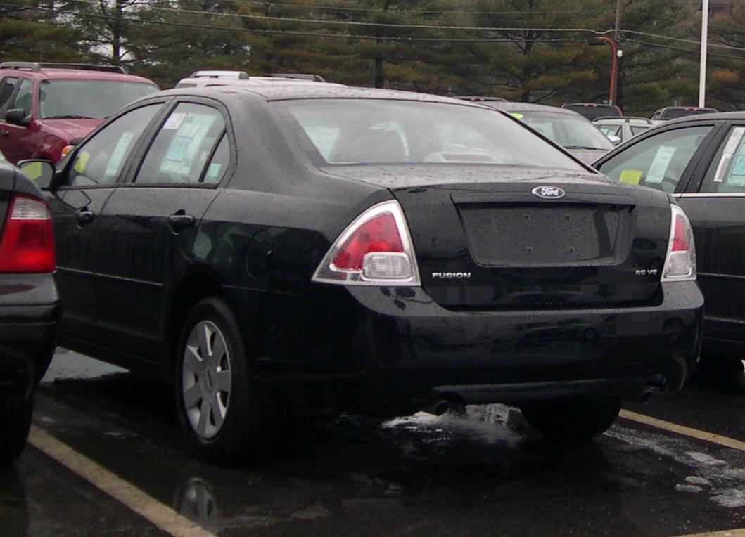 2006 Ford Fusion (North American)